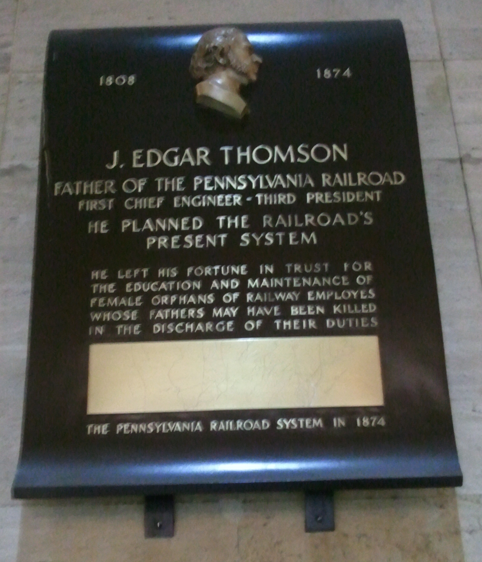 A plaque commemorating the career of John Edgar Thomson, hanging in Philadelphia's 30th Street Station, a former Pennsylvania Railroad Station. The text of the plaque reads: "J. Edgar Thomson / 1808–1874 / Father of the Pennsylvania Railroad / First chief engineer—third president / He planned the railroad's present system / He left his fortune in trust for the education and maintenance of female orphans of railway employés whose fathers may have been killed in the discharge of their duties / [map image with caption] The Pennsylvania Railroad system in 1874"